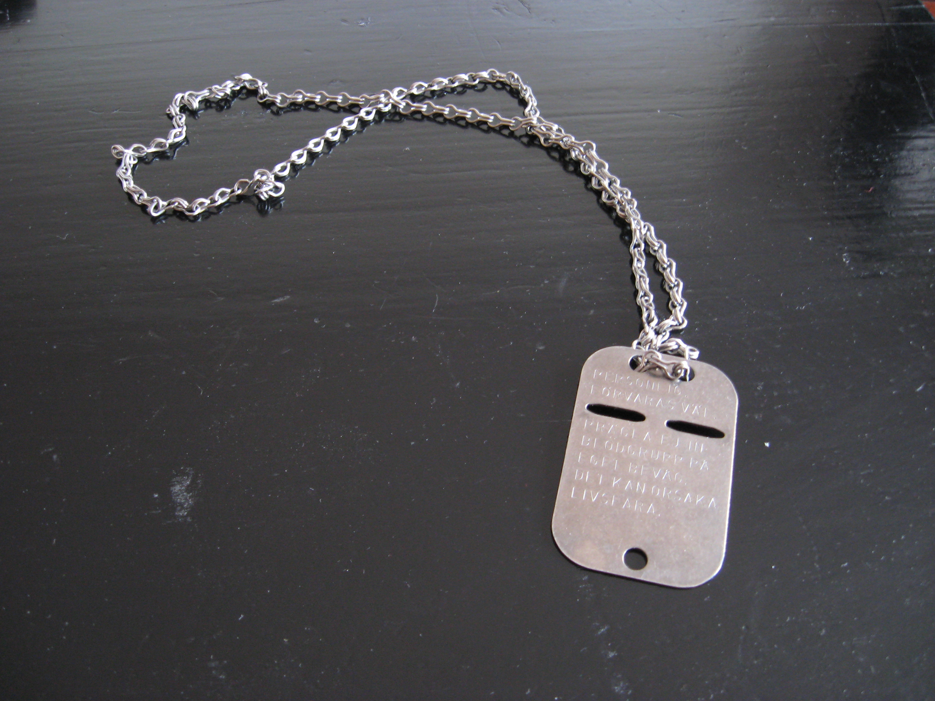 Swedish civilian dog tag (1970s).